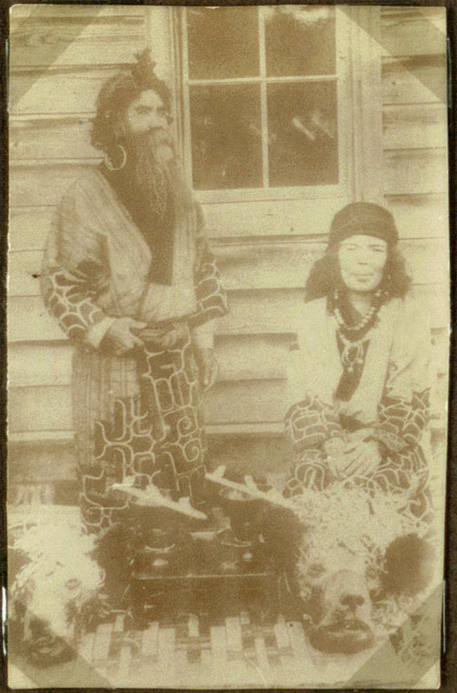 Ainu, Hokkaido. Originates from Mr Ludvig Munsterhjelm’s expedition to Sachalin (Sakhalin) 1914. No. es_b_00525b